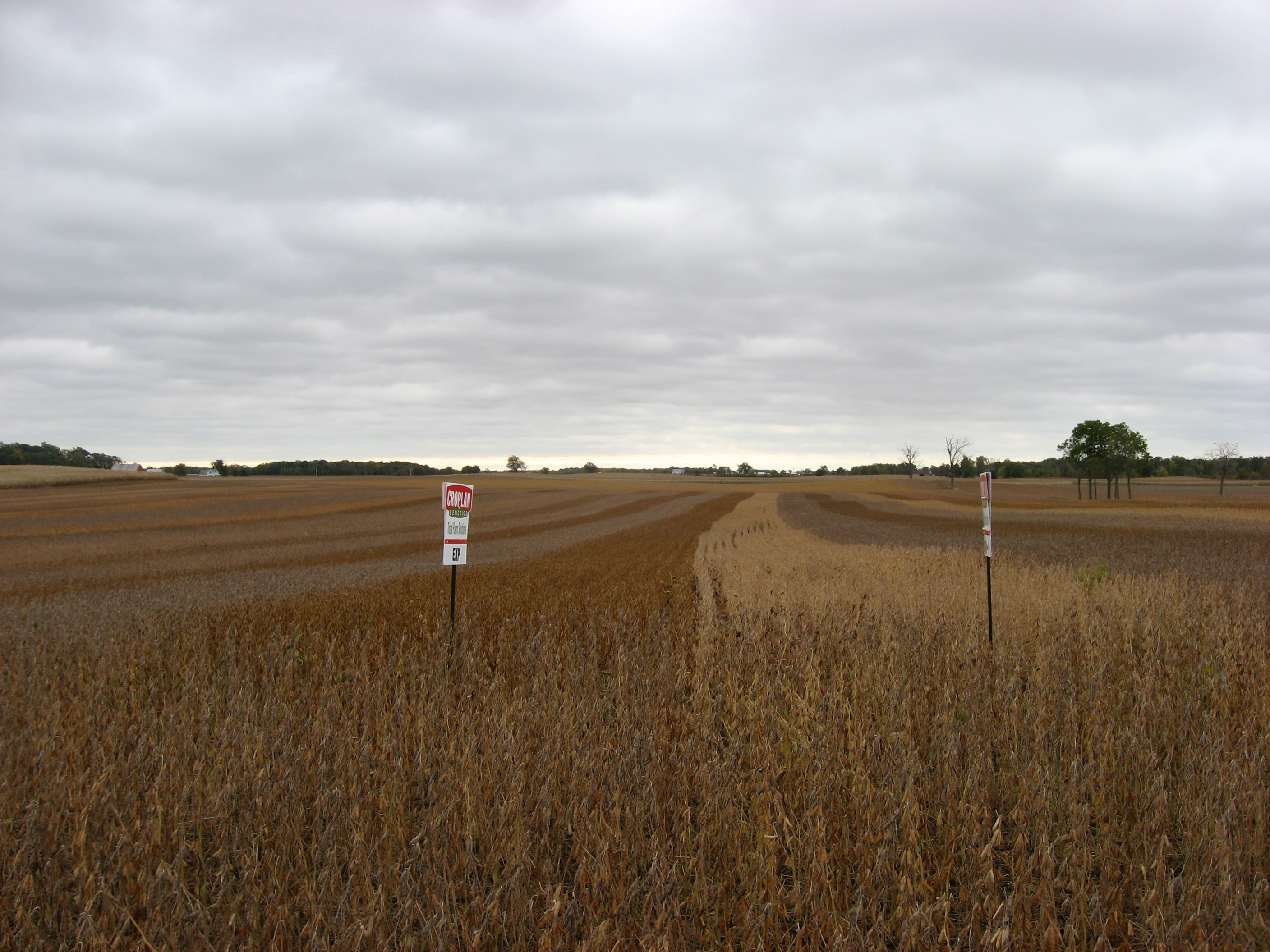 Soybean field in Hale Township, Hardin County, Ohio, United States, located on the southern side of County Road 200 west of its intersection with Township Road 179. This field consists of multiple soybean test plots (Croplan Genetics); strips of different colors are different varieties of soybeans.